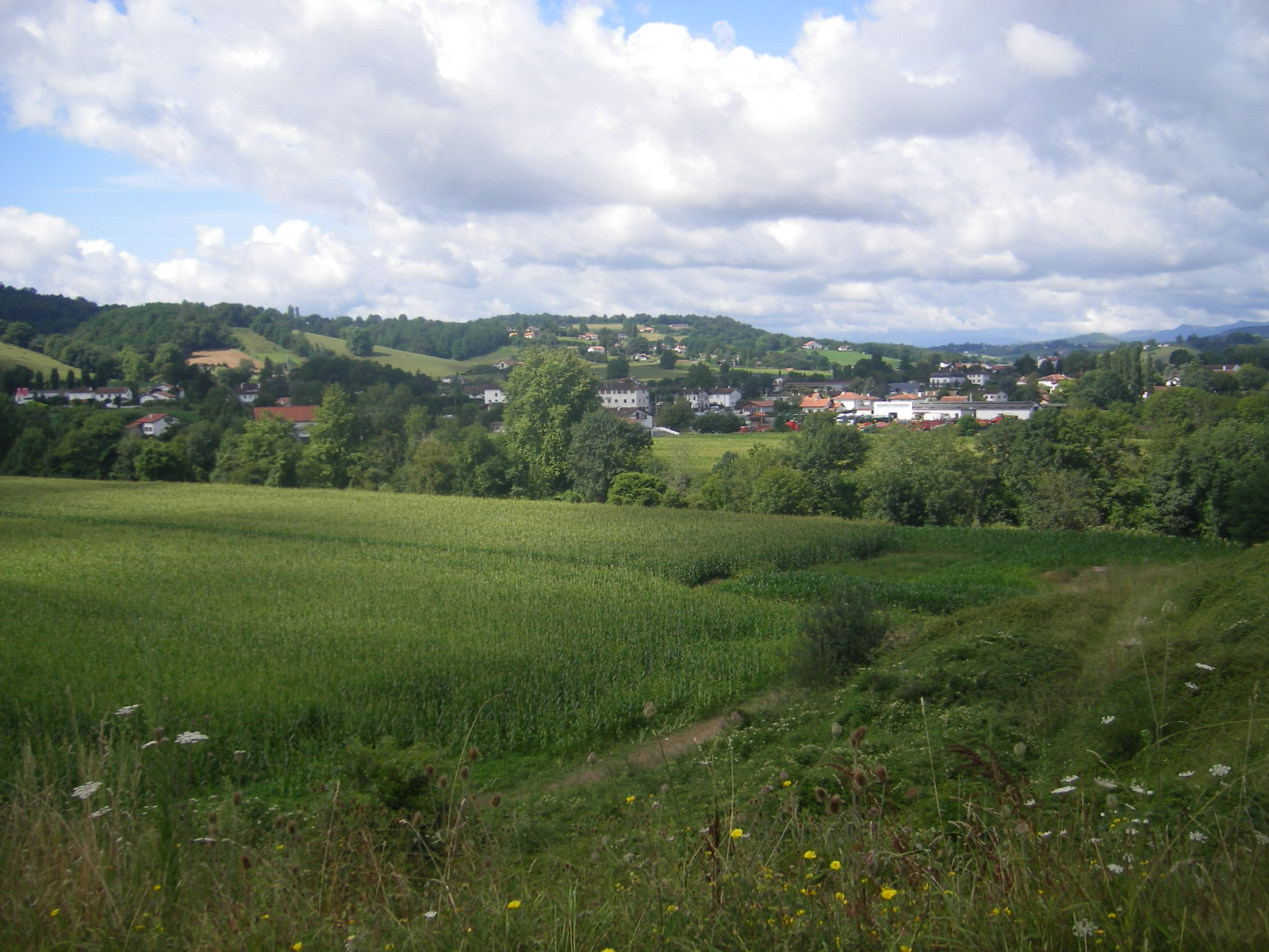 Saint-Palais as viewed from D933 route